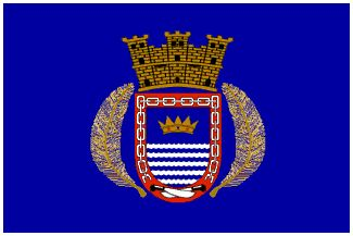 Flag of Naguabo, Puerto Rico